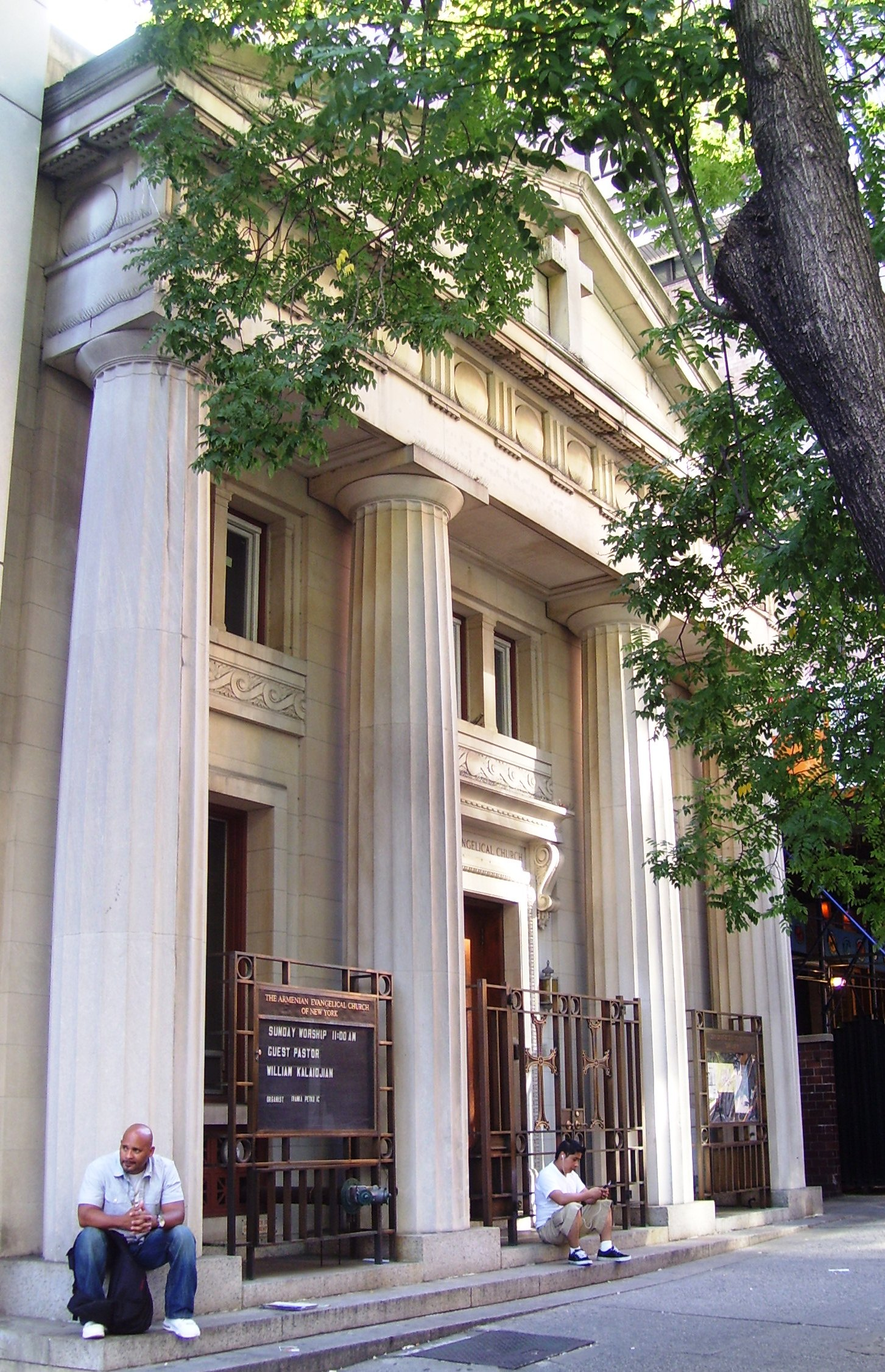 The Armenian Evangelical Church at 152 East 34th Street between Third and Lexington Avenues in the Murray Hill neighborhood of Manhattan, New York City is located in a former bank building. The Nineteenth Ward Bank was built in 1907 and was designed by William Emerson. The church was established in 1896 and shared a church with the Adams-Parkhurst Presbyterian Church. The church purchased the bank building in 1921. (Source: From Abyssinian to Zion (2004))